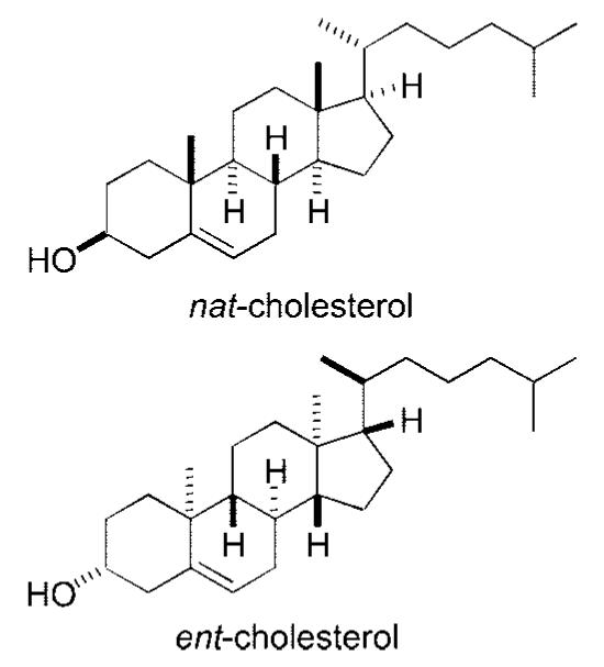 Nat-cholesterol and ent-cholesterol